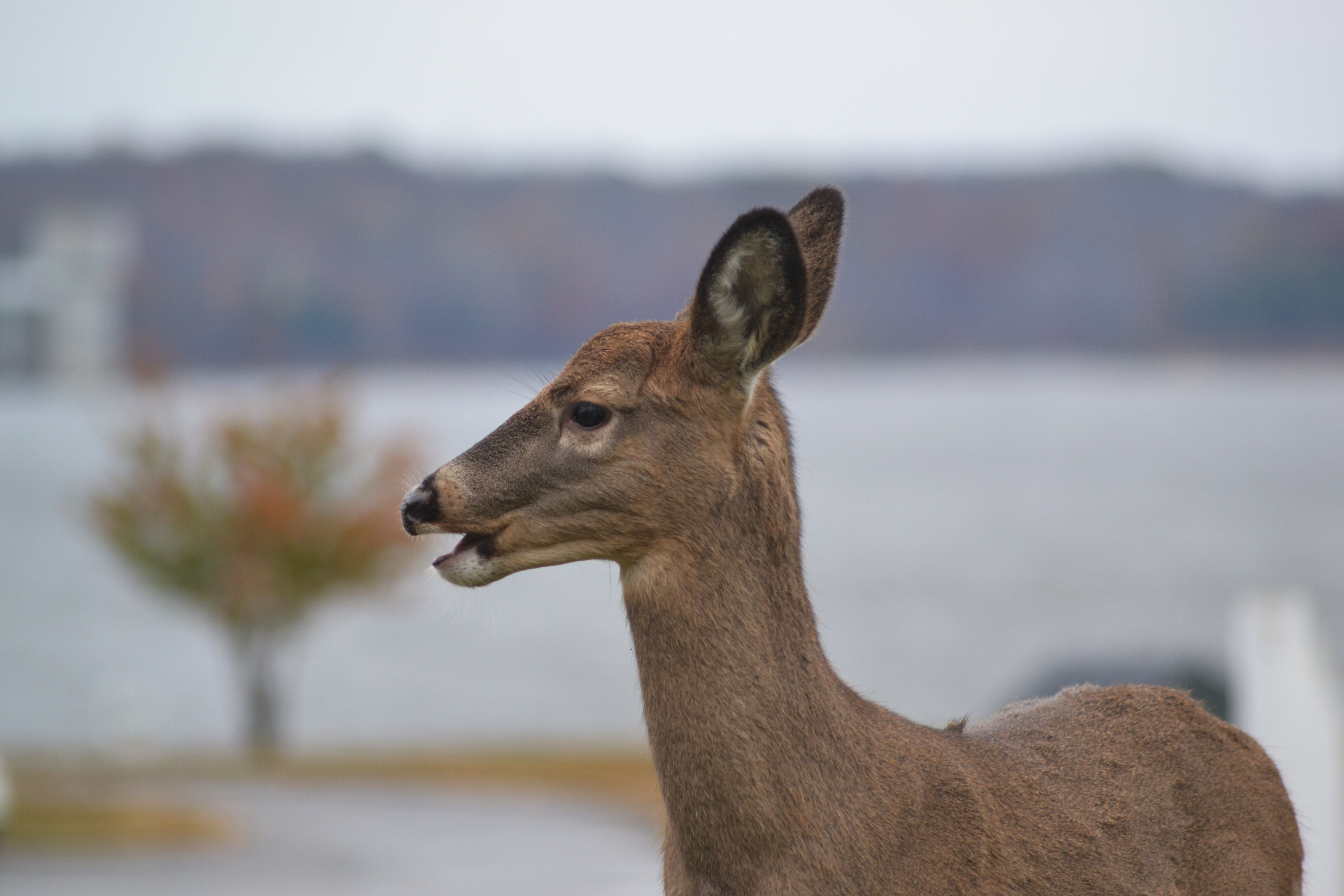 East Fork State Park, Bethel, Ohio